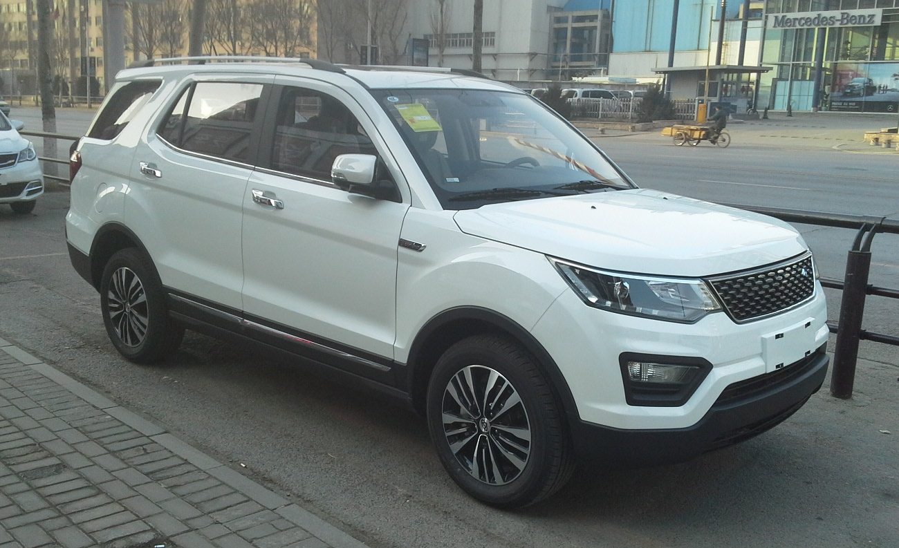 Chana CX70T photographed in Shenyang, Liaoning province, China.